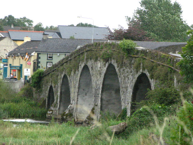 Bennettsbridge Bridge This is a fine bridge leading into the village of Bennettsbridge.